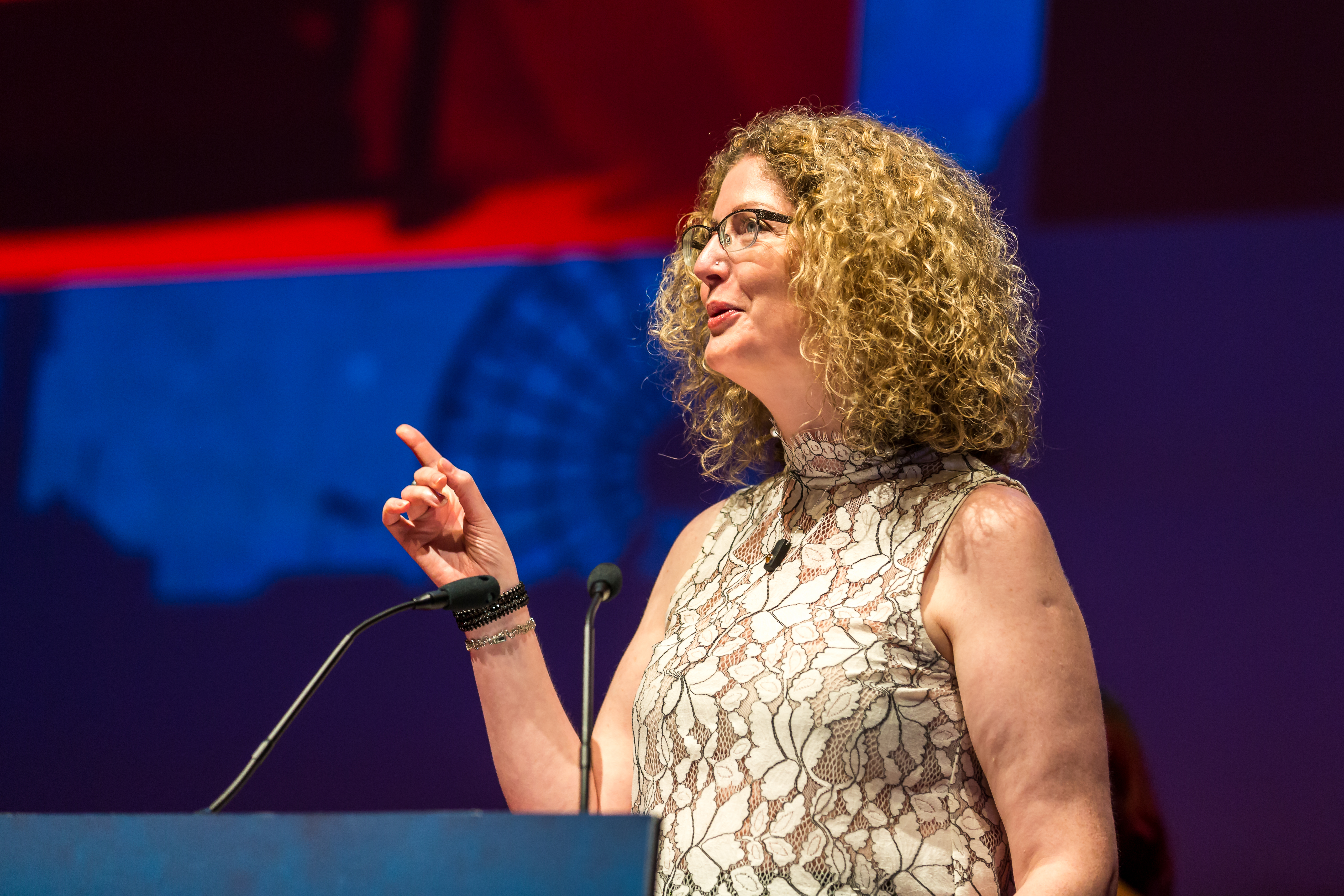 Maura McHugh, at the Hugo Awards Ceremony 2017 at Worldcon in Helsinki.